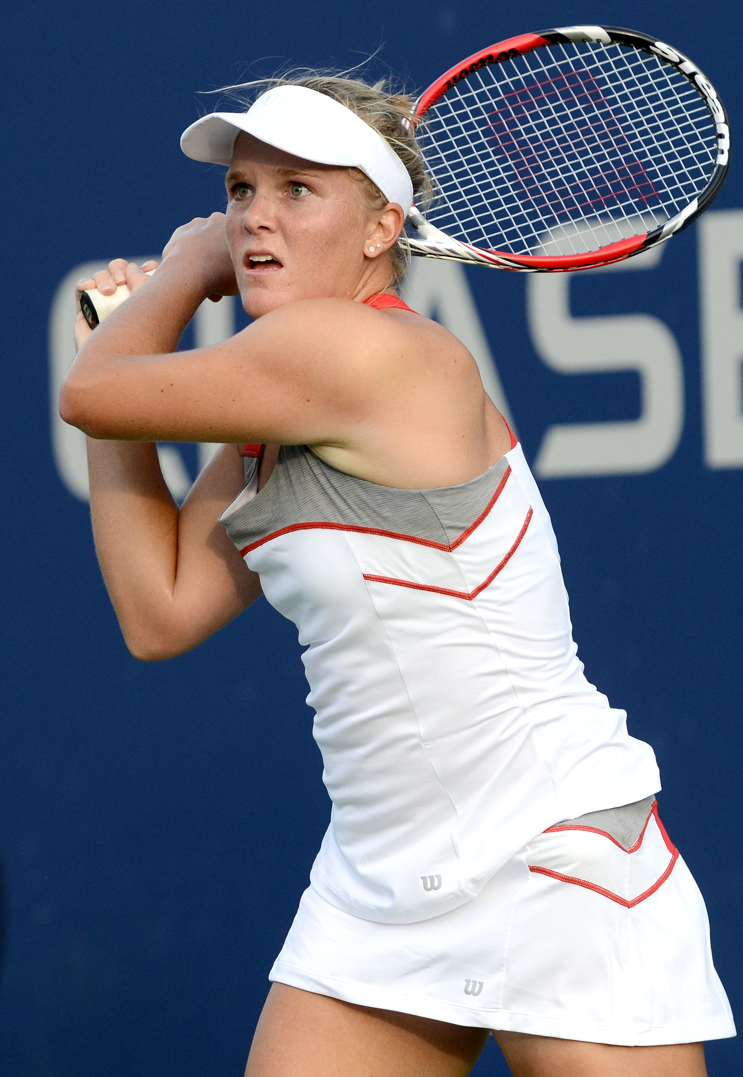 August 21, 2014 Queens, NY Melanie Oudin (USA) def. Stephanie Foretz (FRA) This photo is from two days I went to the qualifying rounds ("the Qualies") for the US Open tennis tournament. There are hundreds more photos to come. (8/23/14)